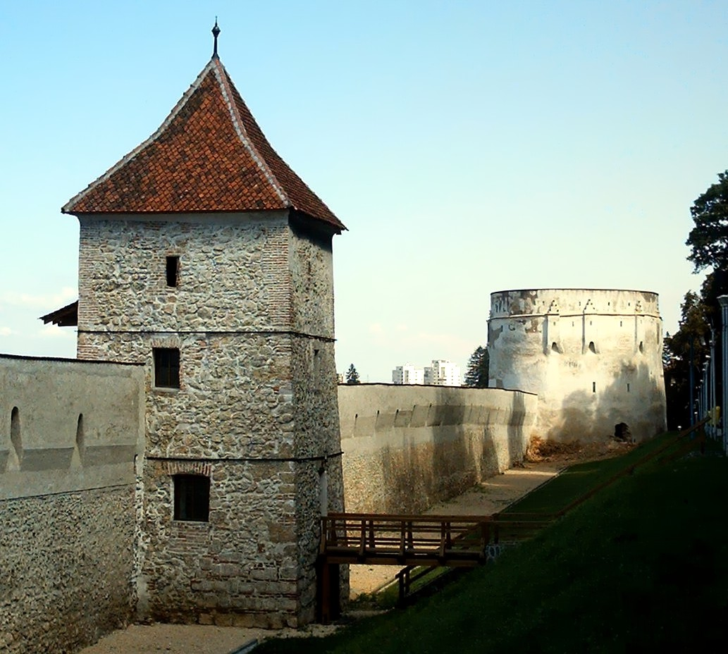 Walls and Towers